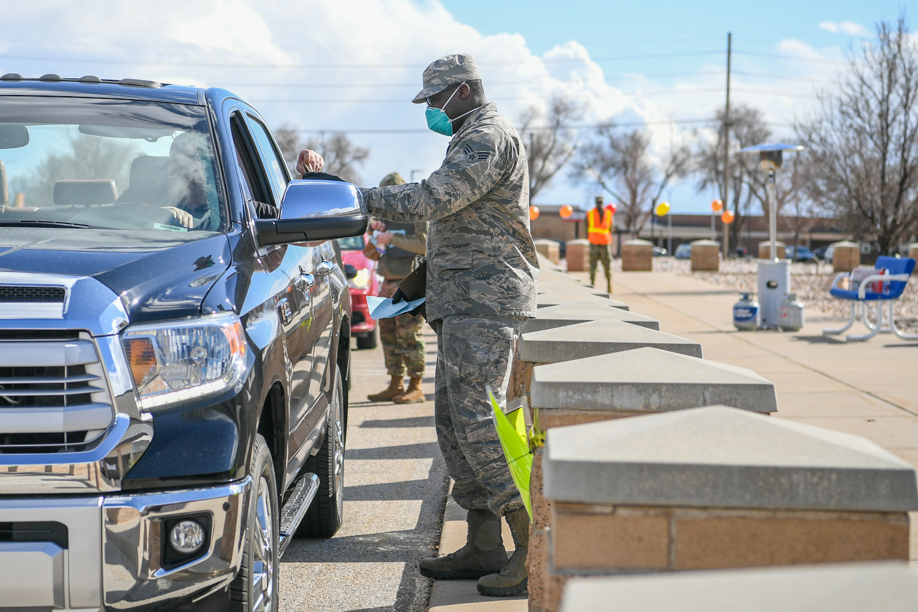 Senior Airman Elijah Thompkins, 75th Medical Group, hands a prescription over to a beneficiary March 23, 2020, at Hill Air Force Base, Utah. The 75th Medical Group Satellite Pharmacy is providing curbside service until further notice in front of the Base Exchange shopping center in support of social distancing recommendations and to increase efforts to mitigate further spread of the novel coronavirus. (U.S. Air Force photo by Cynthia Griggs)